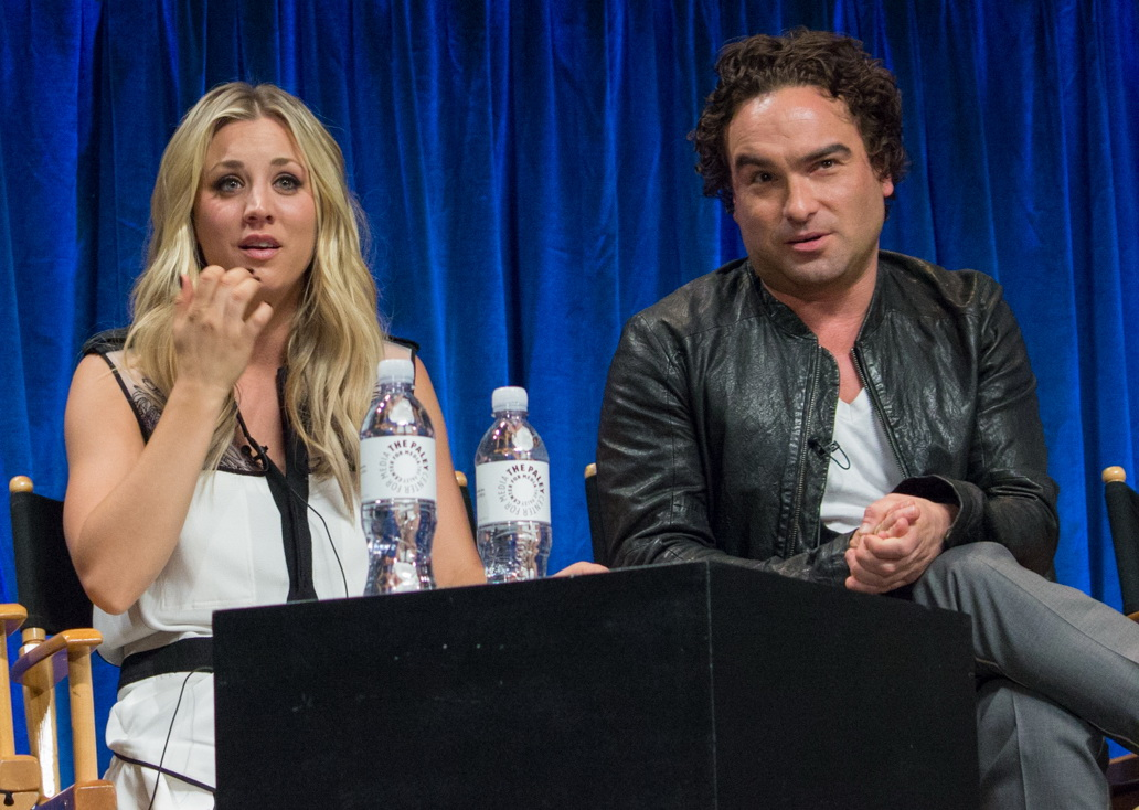 Kaley Cuoco and Johnny Galecki at PaleyFest 2013 for the TV show "Big Bang Theory"